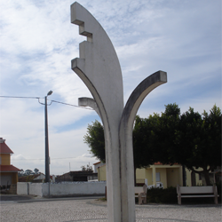 Monument in Bidoeira de Cima - Portugal